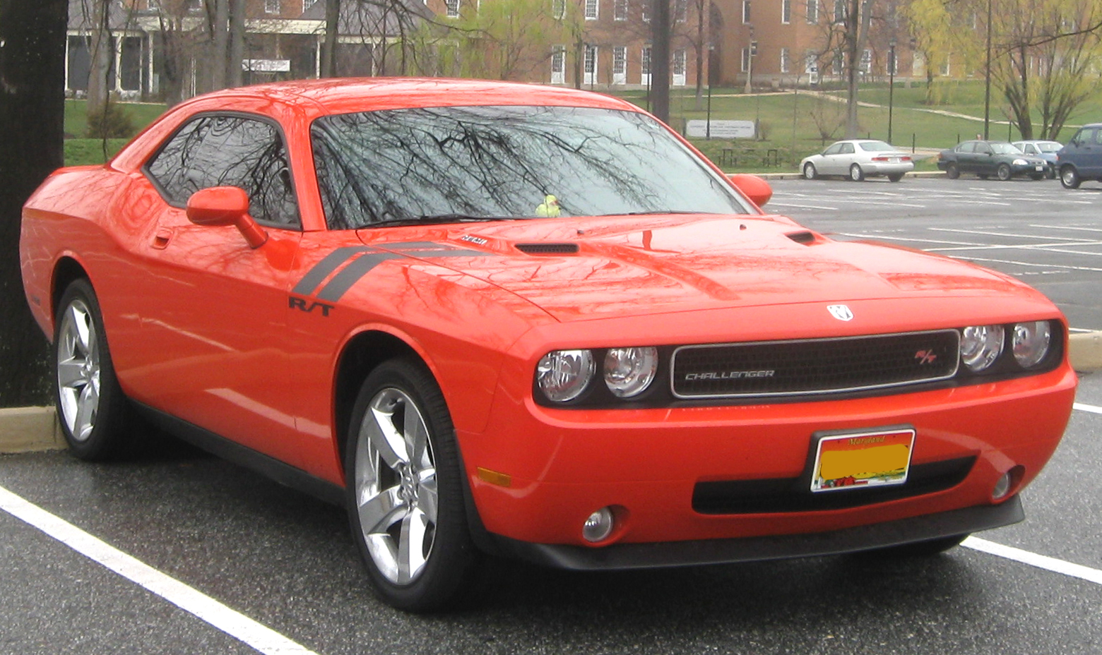 Dodge Challenger R/T photographed in College Park, Maryland, USA.